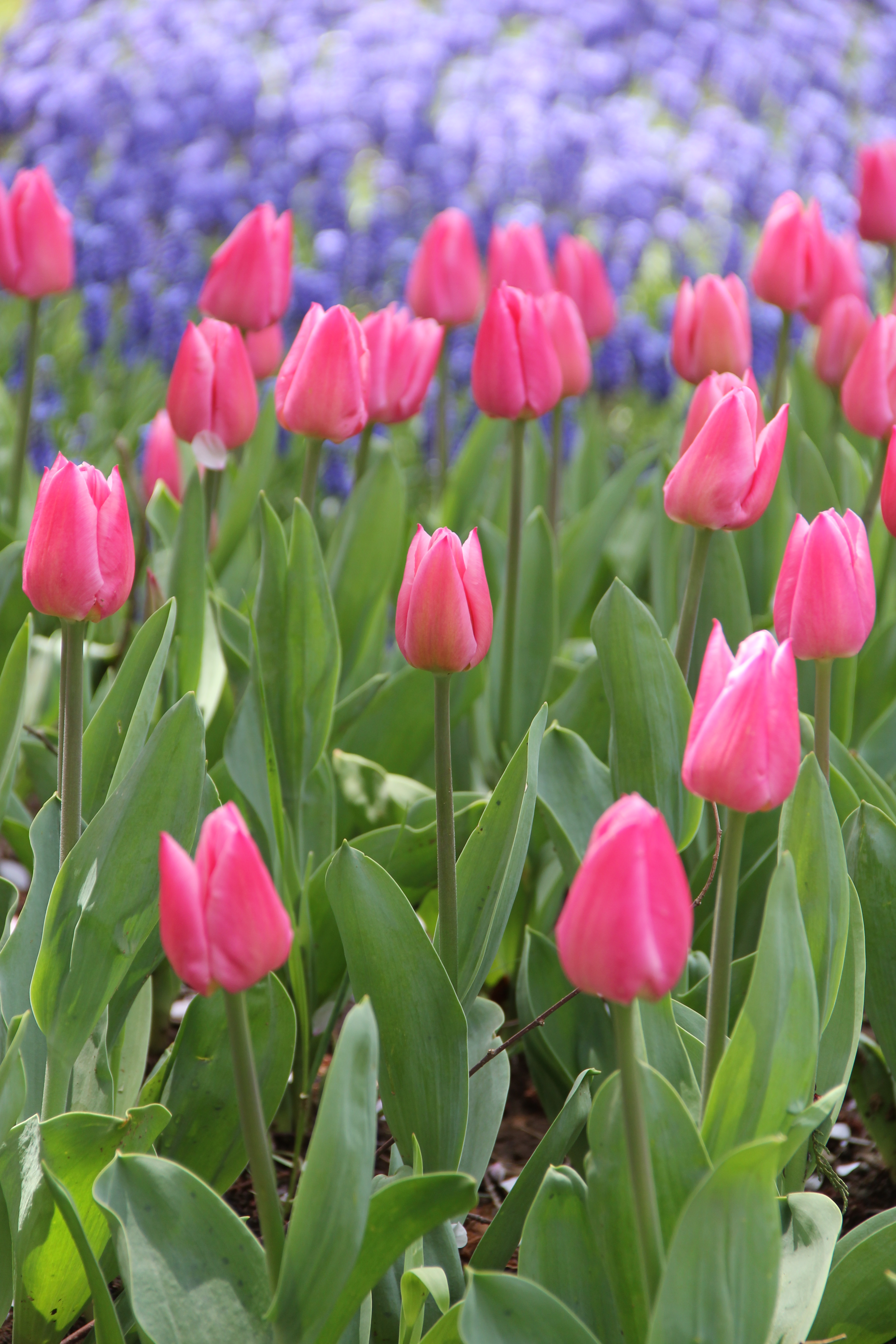 Tulipa ,Christmas Dream